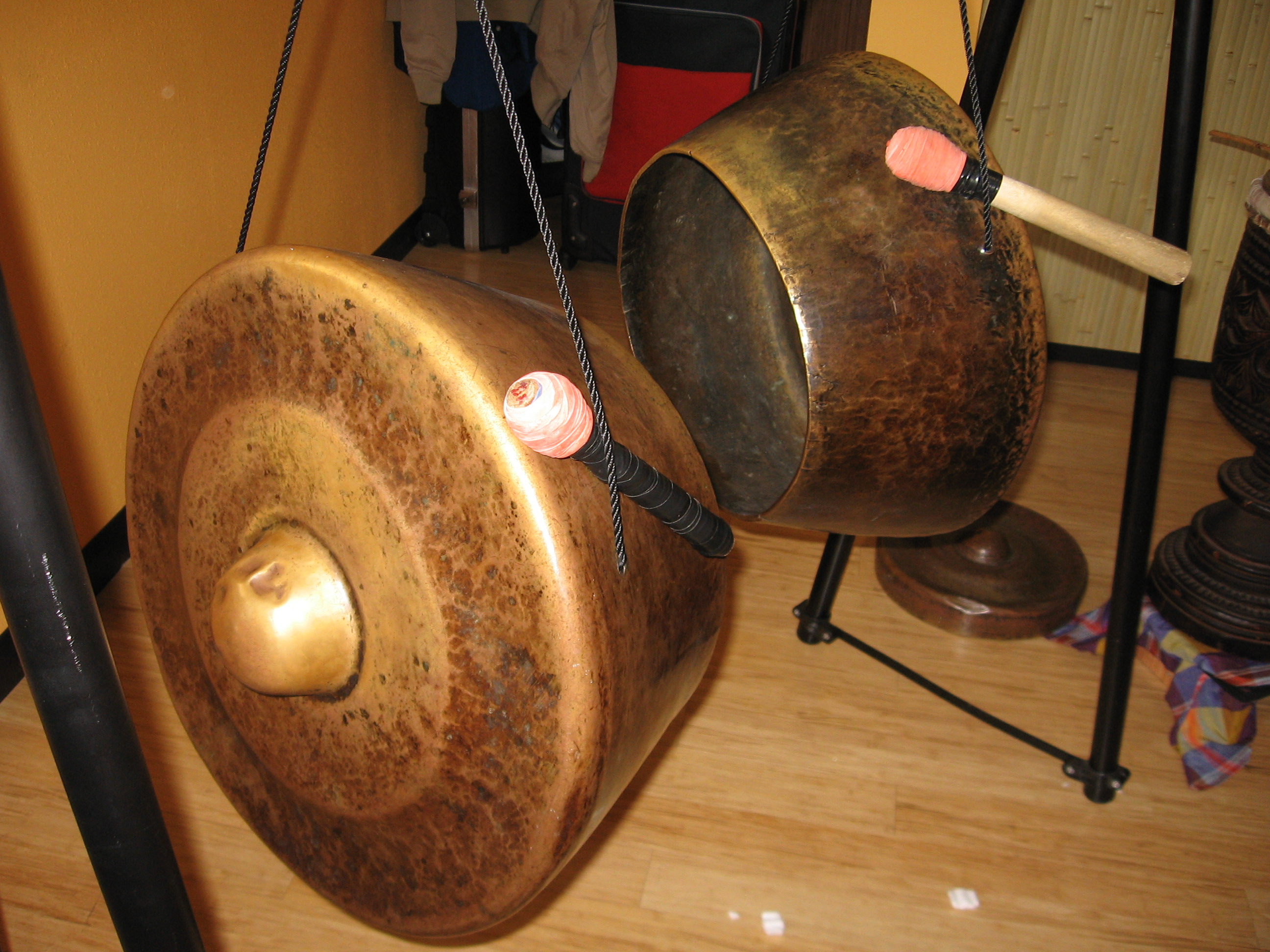 The two Philippine vertically hanged, wide-rimmed gongs known as the agung used as a supportive/accompanying instrument in the kulintang ensemble.